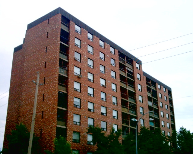 Paterson Court in Thunder Bay, Ontario